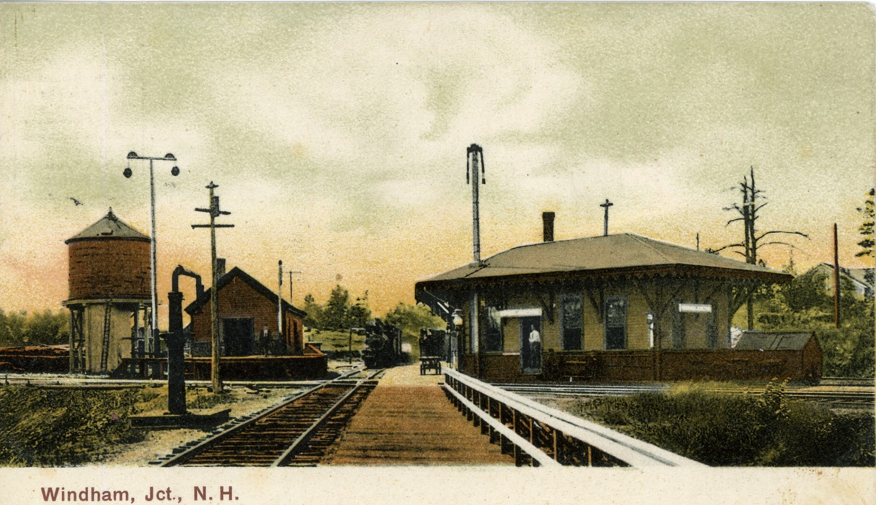 Windham jct.